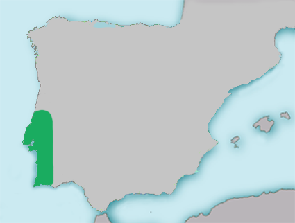 Distribution map of Rutilus lusitanicus (now Iberochondrostoma lusitanicum) in Iberian Peninsula.